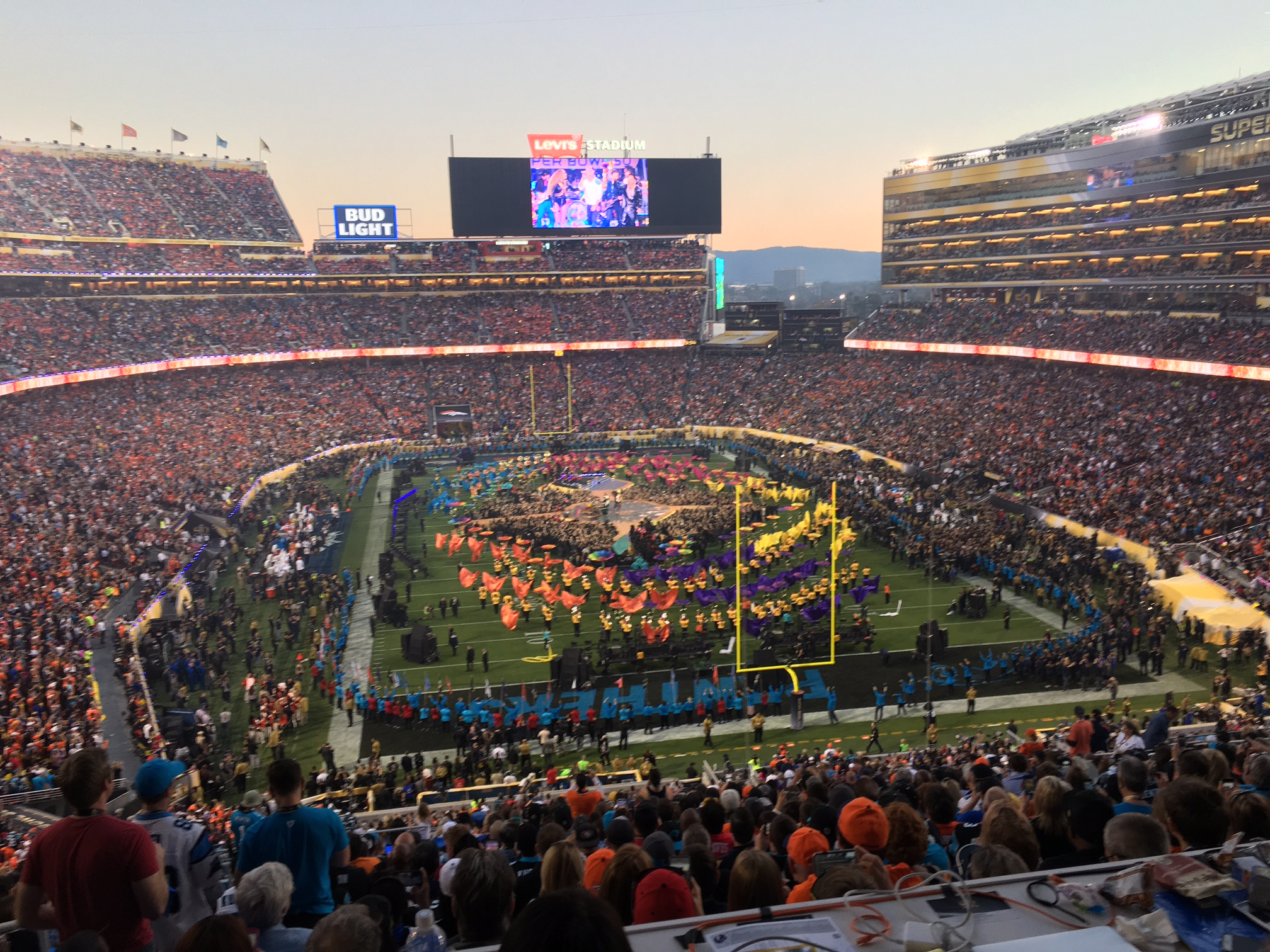 Superbowl halftime show in San Francisco, California as the Super Bowl 50 football game is being played Sunday night, Feb. 7, 2016.